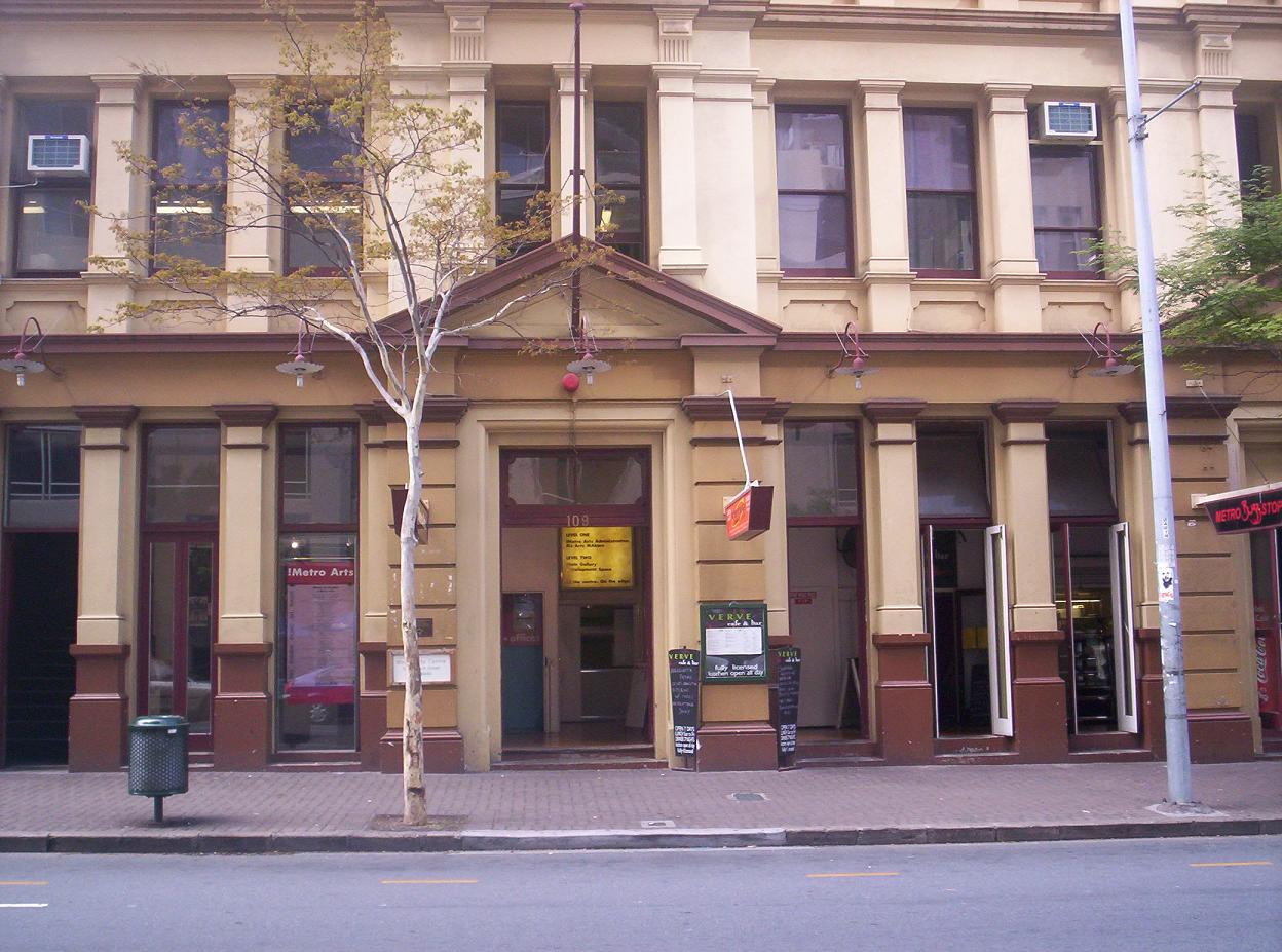 Metro Arts — Brisbane ( this photograph was taken by Figaro )